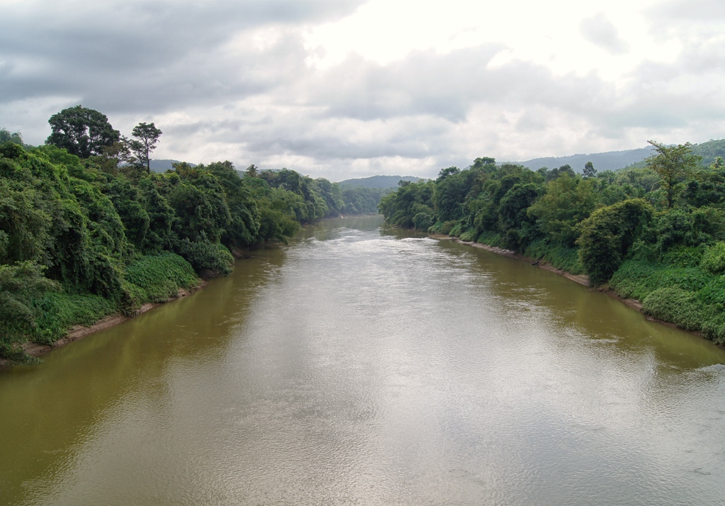 Ingiriya Drainage02